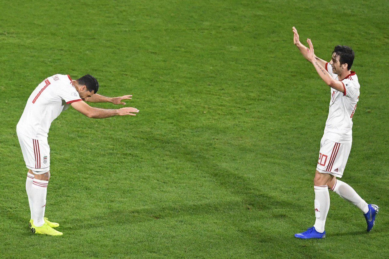 China-Iran, 2019 AFC Asian Cup Quarter-finals